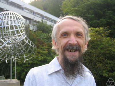 Victor Vassiliev, Russian mathematician, at Oberwolfach.